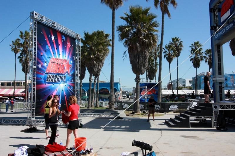 The entrance to the American Ninja Warrior season 4 regional course in Venice Beach, California. Here the G4 TV channel is filming competitor auditions for the Northwest Region (see description from